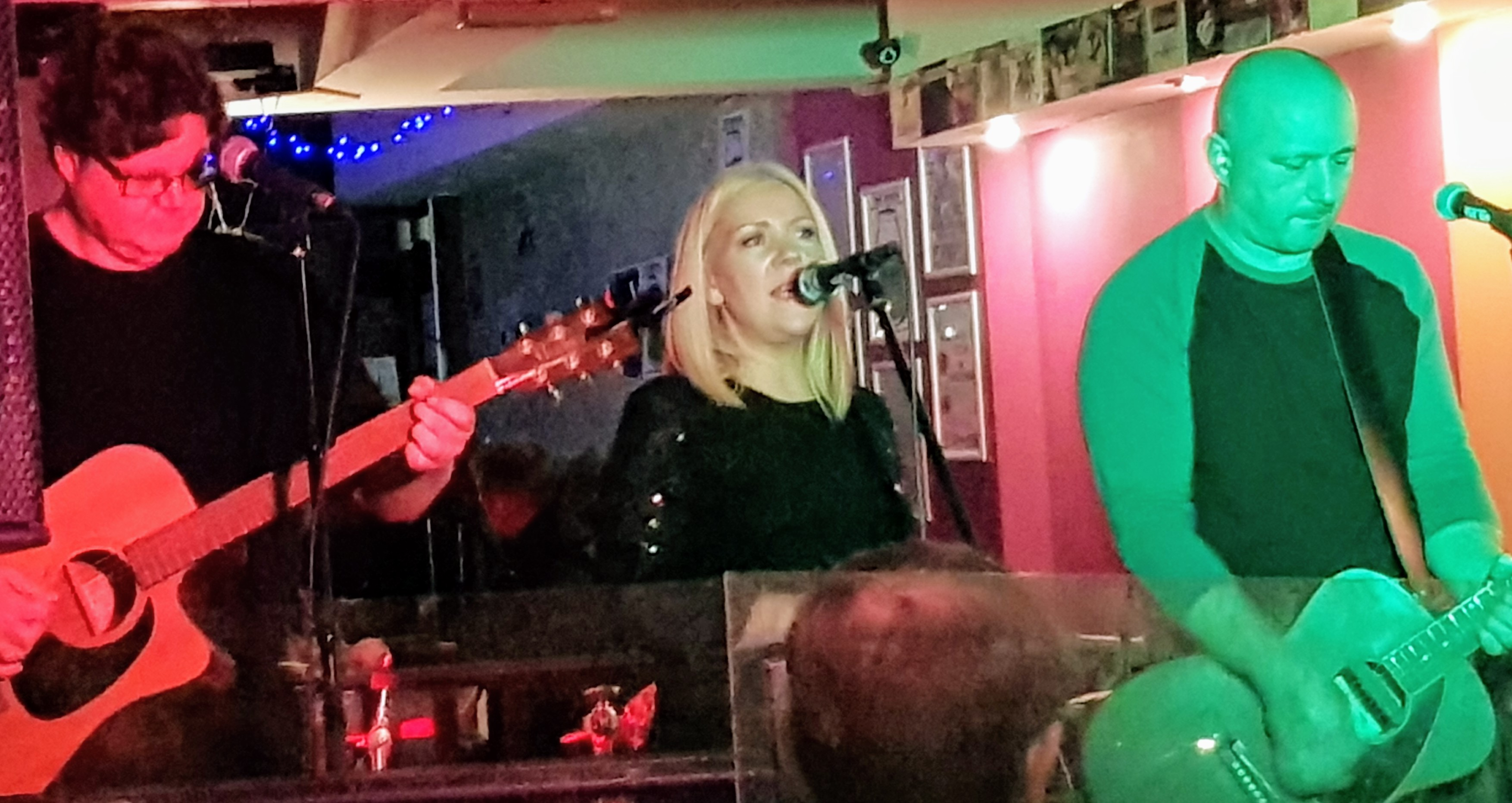 The Darling Buds on stage, The Moon, Cardiff